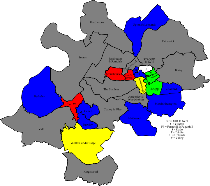 A map of the results of the 2007 Stroud Council election. Colour legend by wards won: Conservative party Green party Labour party Liberal Democrats Independent Wards in grey were not contested in 2007.